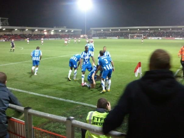 County celebrate their equalizer at Fleetwood Town in 2011